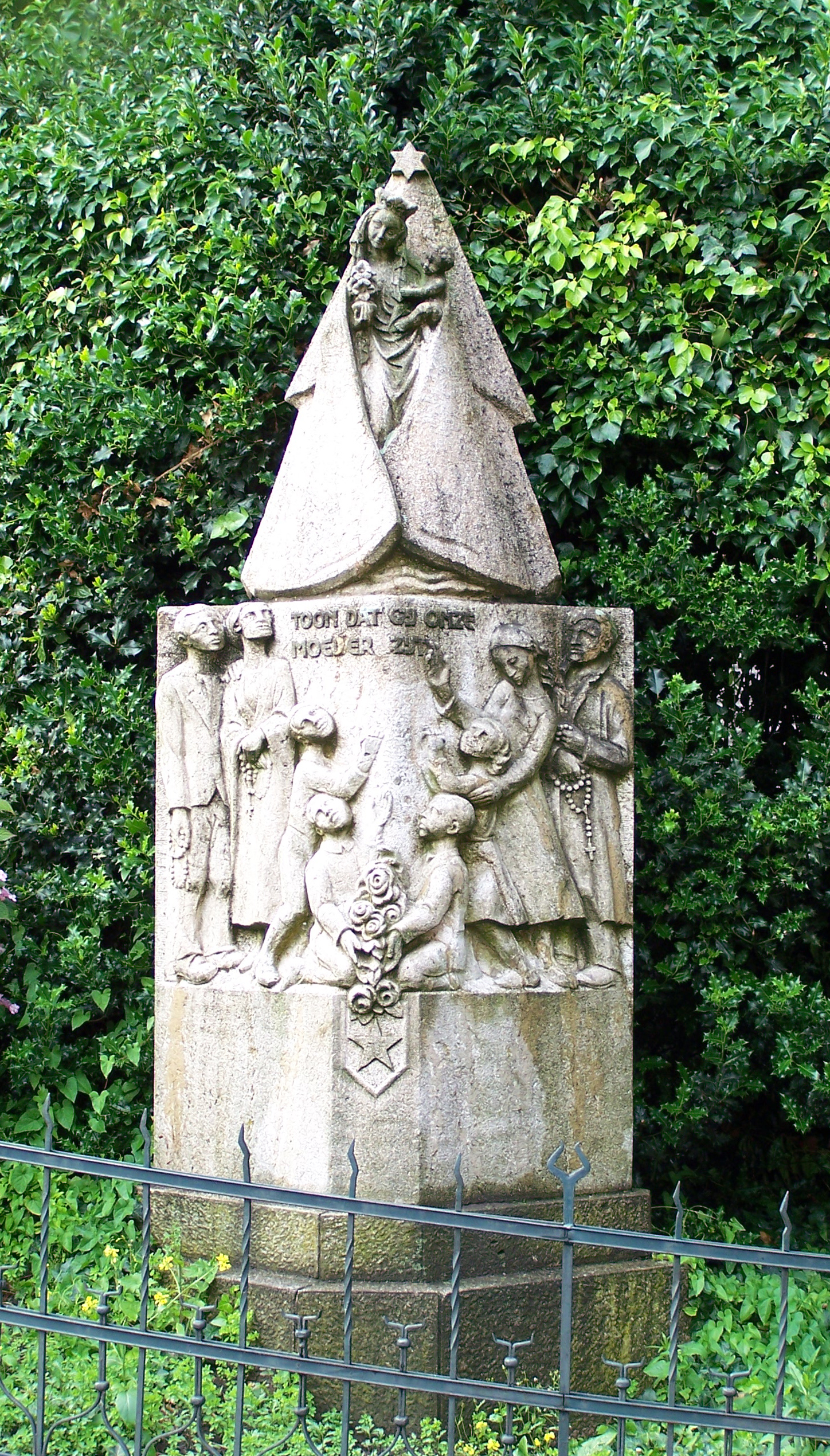 Sculpture of Maria at the Papenstraat/Sint Servaasklooster. Placed in 1948 and made by Charles Vos.